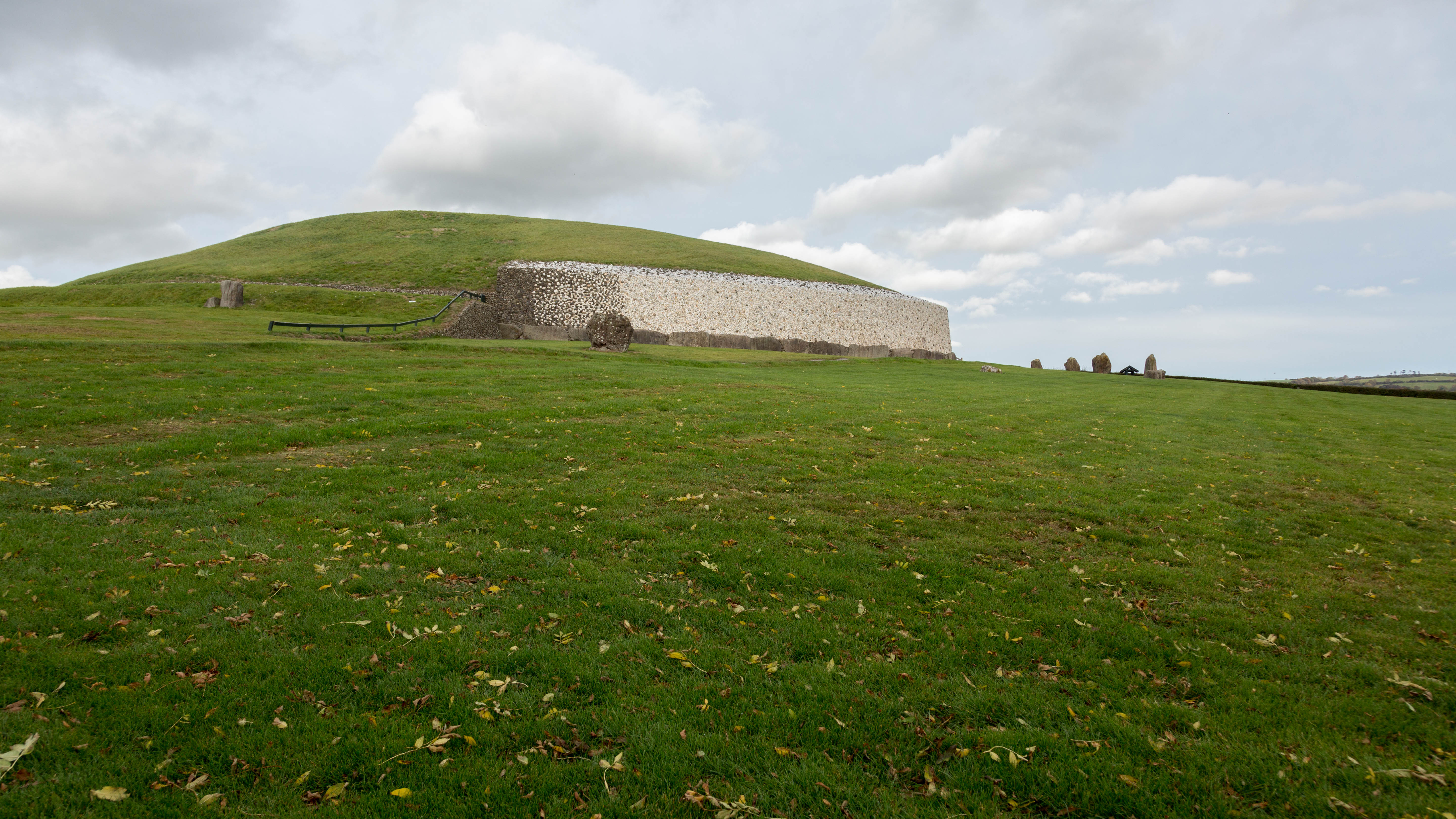 One of our last stops in Ireland (after leaving Belfast in Northern Ireland) on our way back the airport in Dublin was to the 5,000-year-old stone age passage tomb at Newgrange in County Meath. It's age places it before the Egyptian pyramids and Stonehenge. The orderly wall of white quartz and natural stones were an architectural reconstruction using materials that were found at the base of the mound.